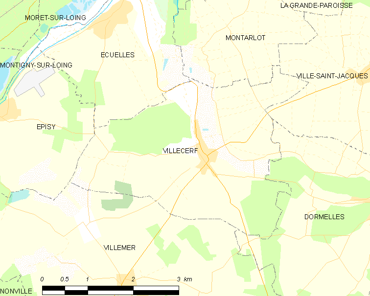 Map of French municipality Villecerf